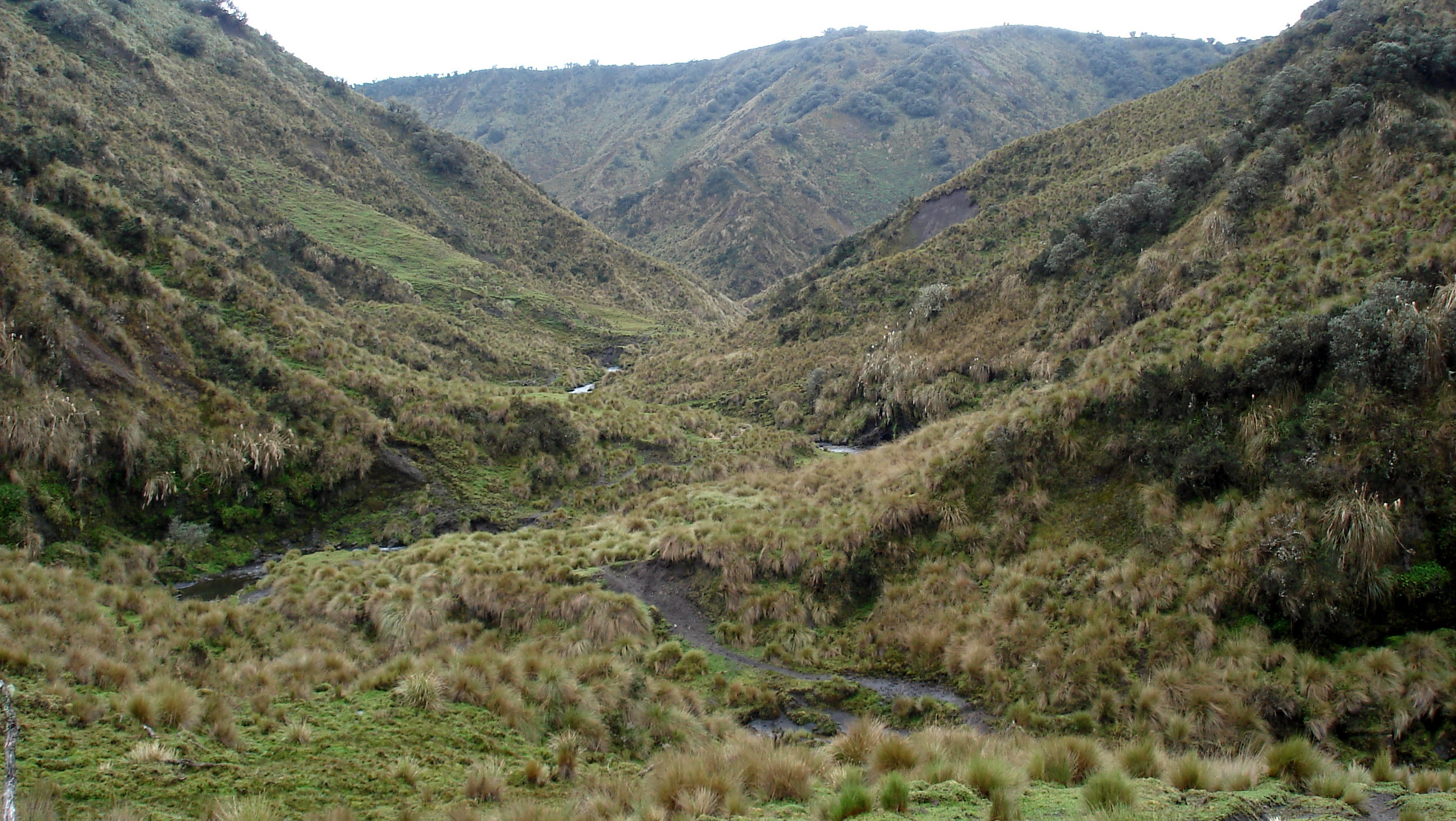 Typical Páramo landscape near Sangay base camp (Sangay national park, Ecuador)